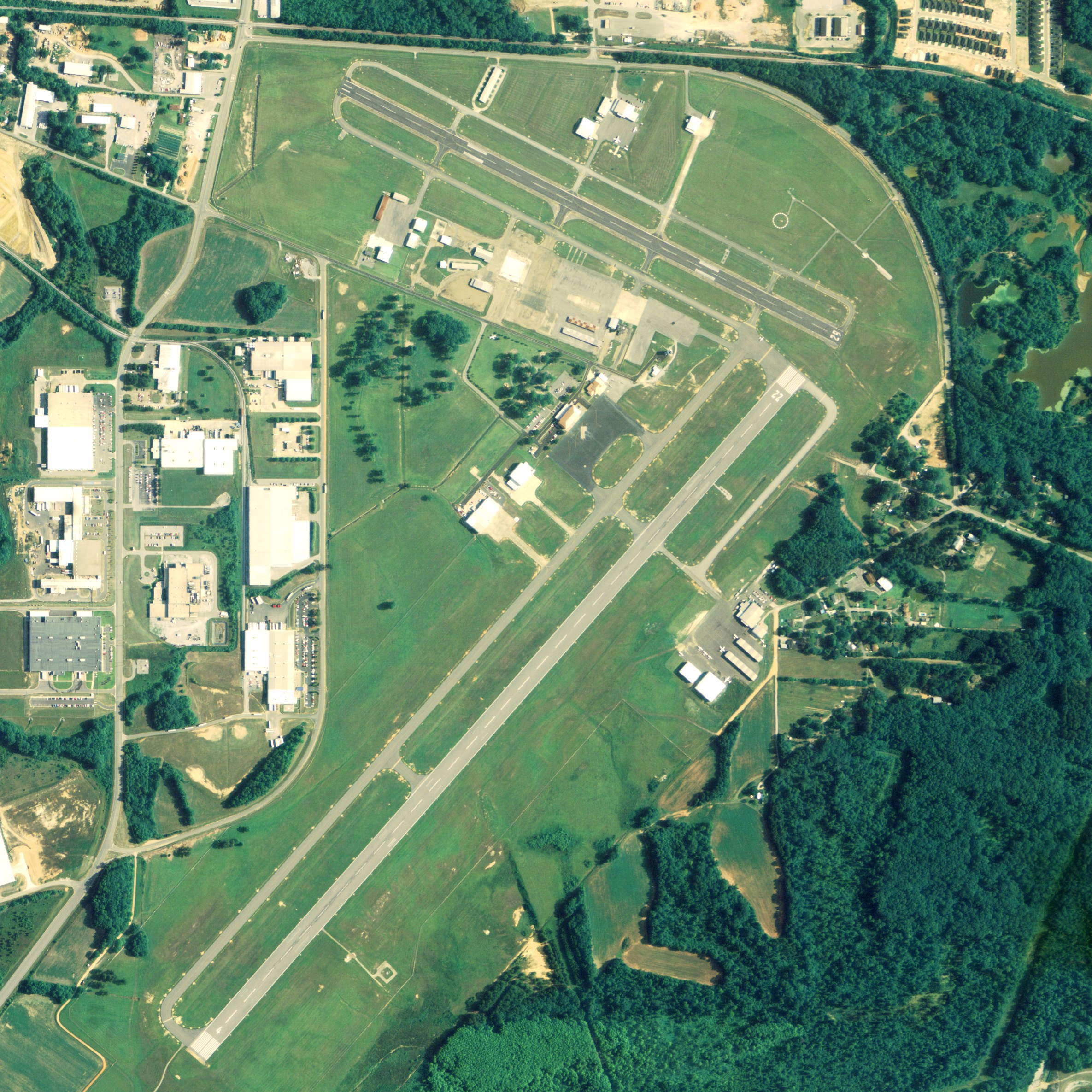 Aerial image of Tuscaloosa Regional Airport in Tuscaloosa, Alabama, United States